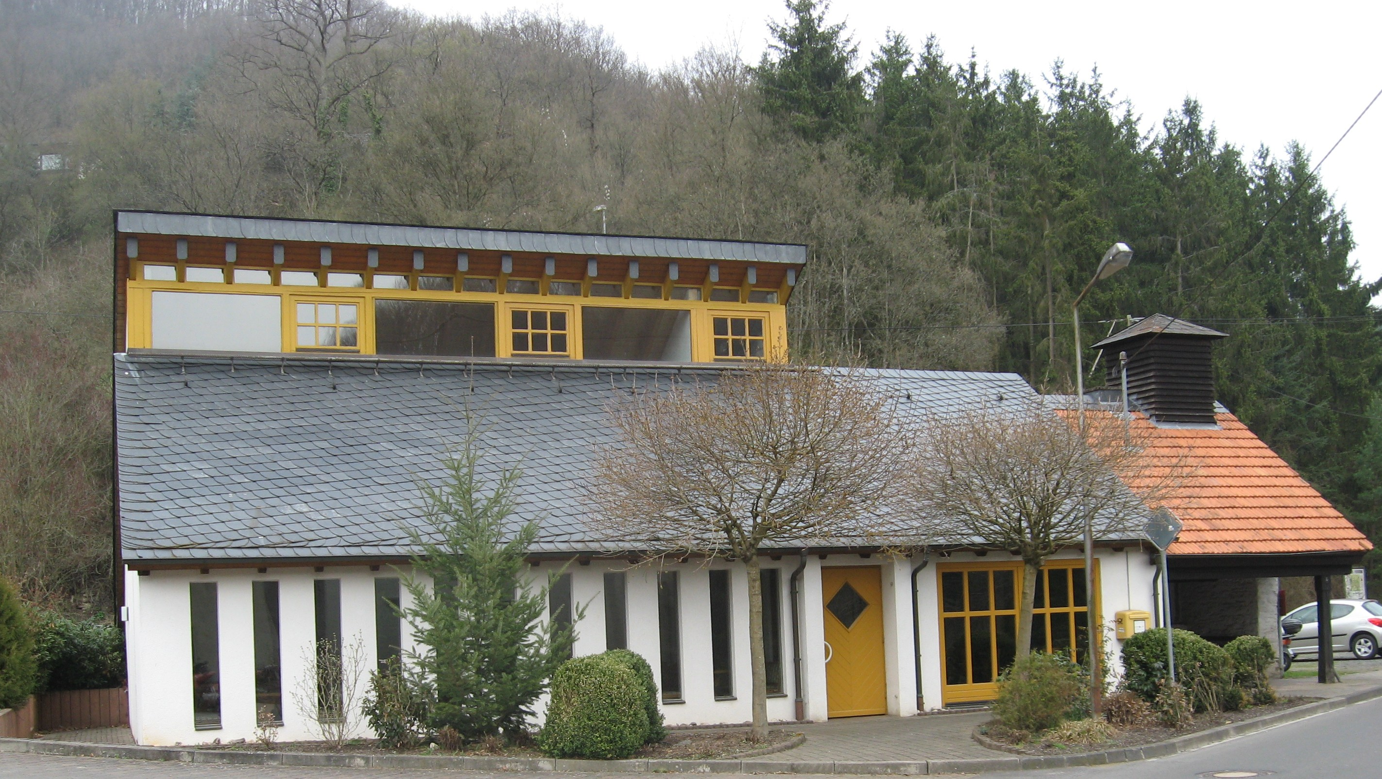 Village Heinzenberg in the Hunsrück landscape, Germany